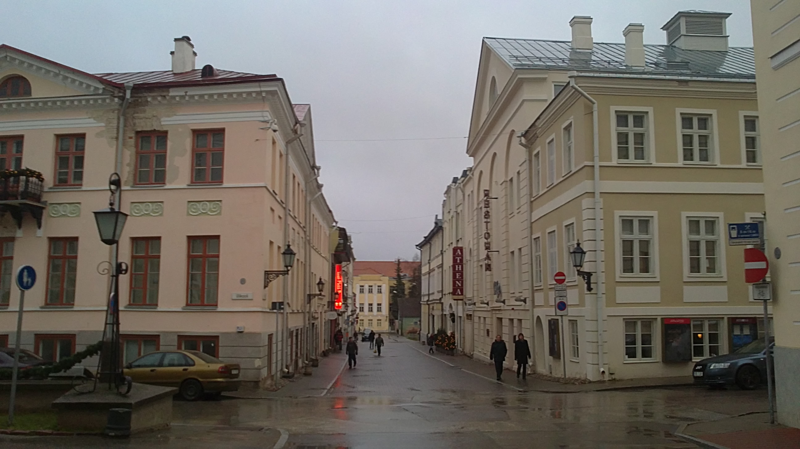 Küütri street in Tartu